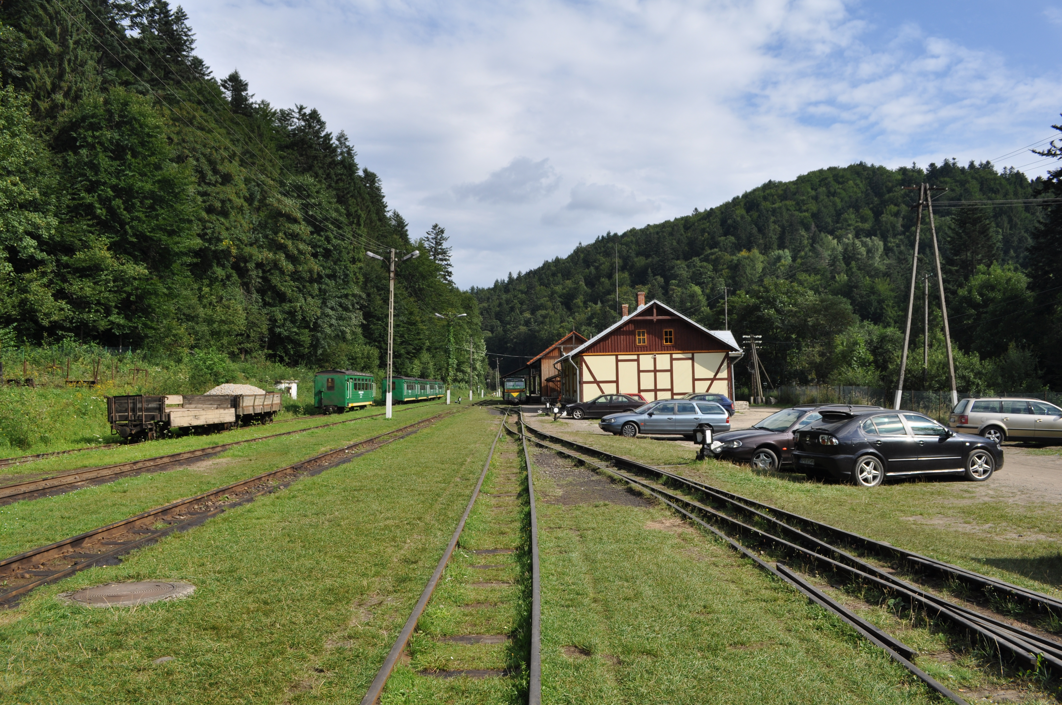 Main station of Bieszczady Forest Railway in Majdan